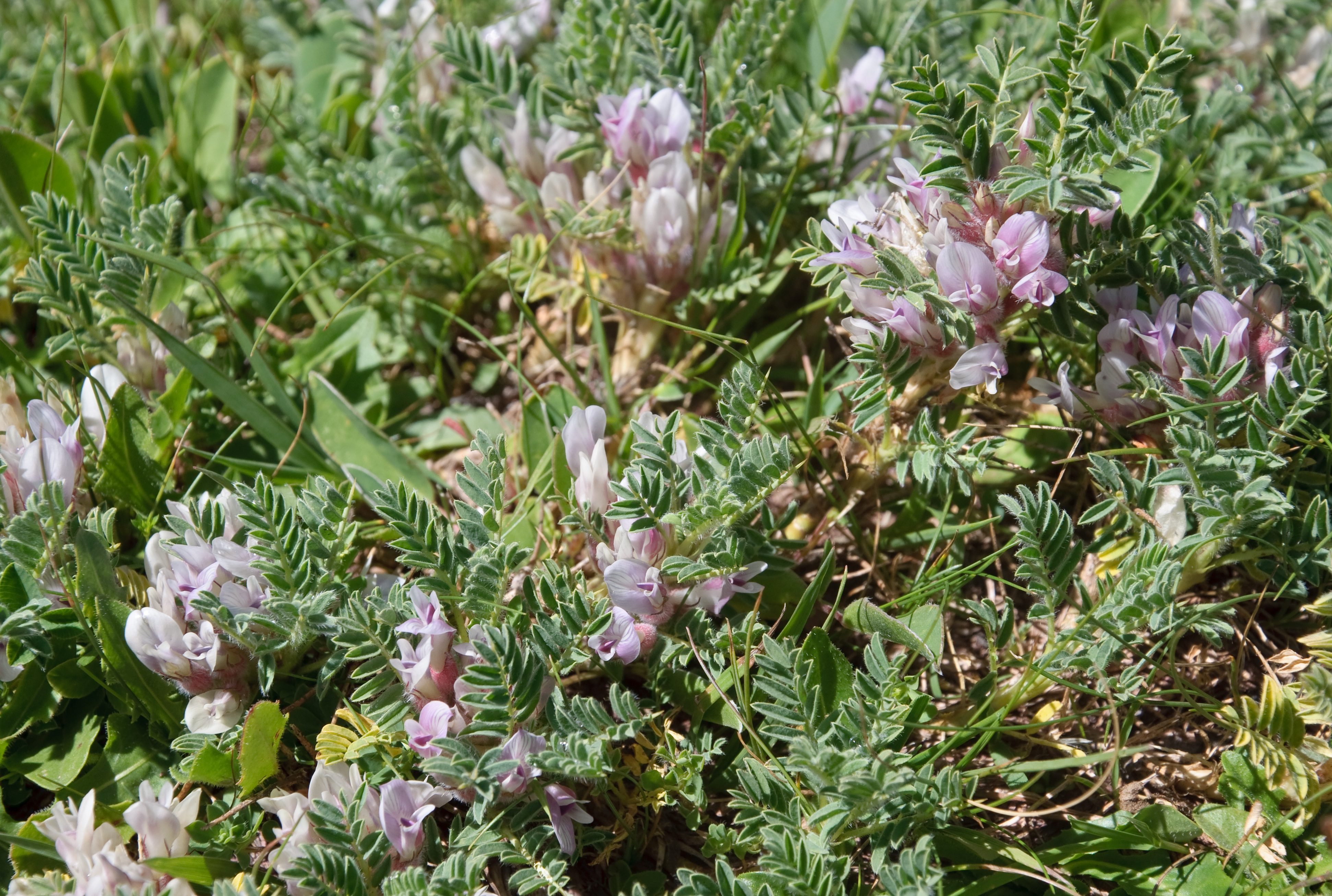 Mountain Tragacanth (Astragalus sempervirens), near the lake of Estaens in the Pyrenees.